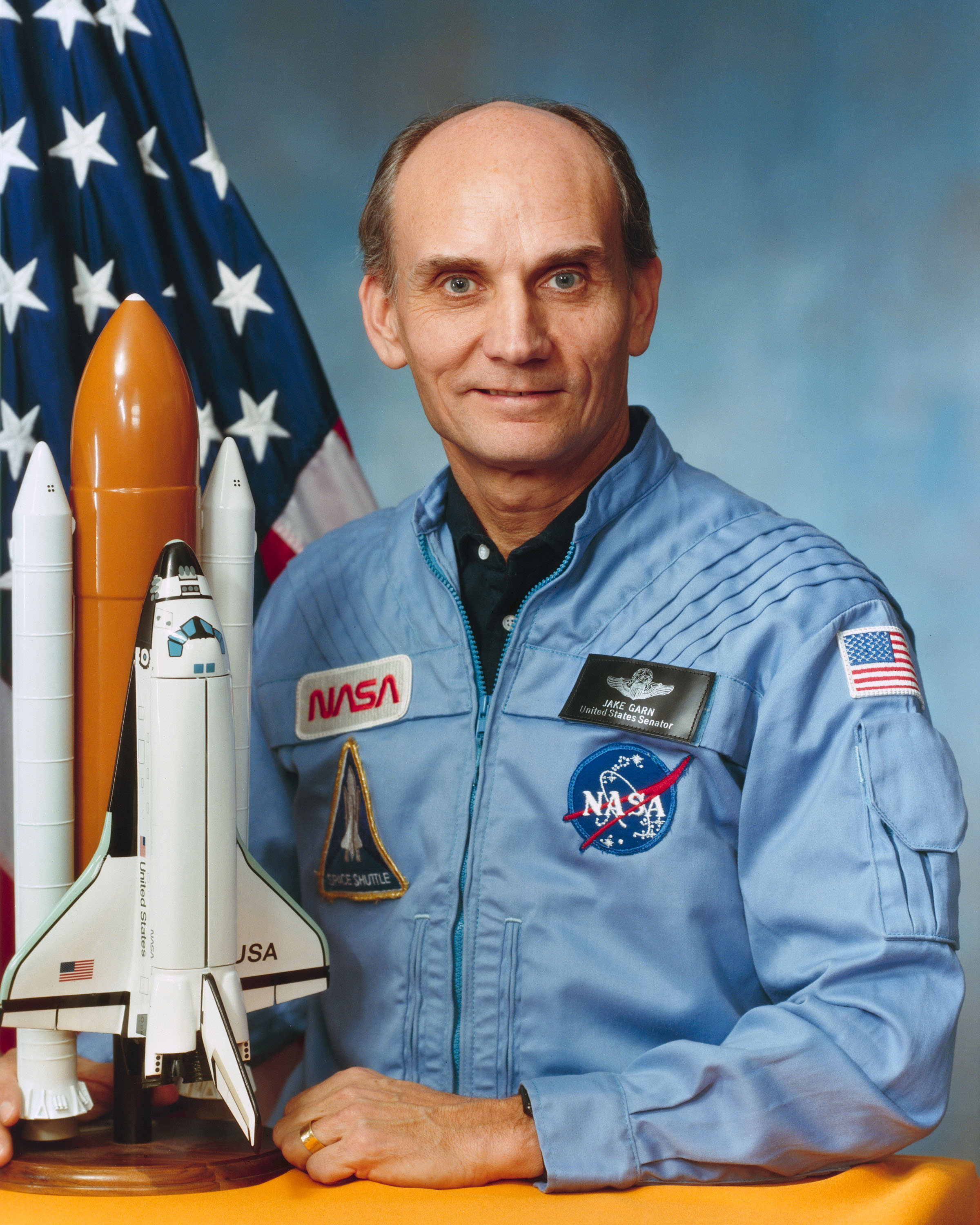 Jake Garn, US politician and astronaut.